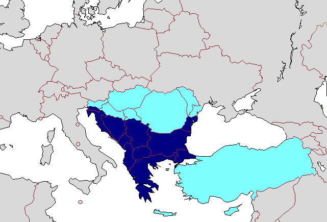 Southeastern Europe Southeastern Europe proper (the Balkan Peninsula) Countries and territories located outside the Balkan Peninsula, but who are related to it